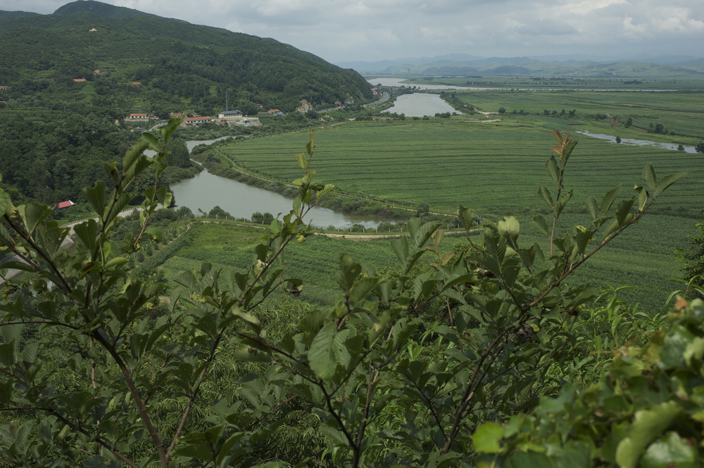 To the left of this picture is Dandong, China whereas to the right of the picture is North Korea! It's beautiful but not a lot of activity going on... We need to be praying for North Korea